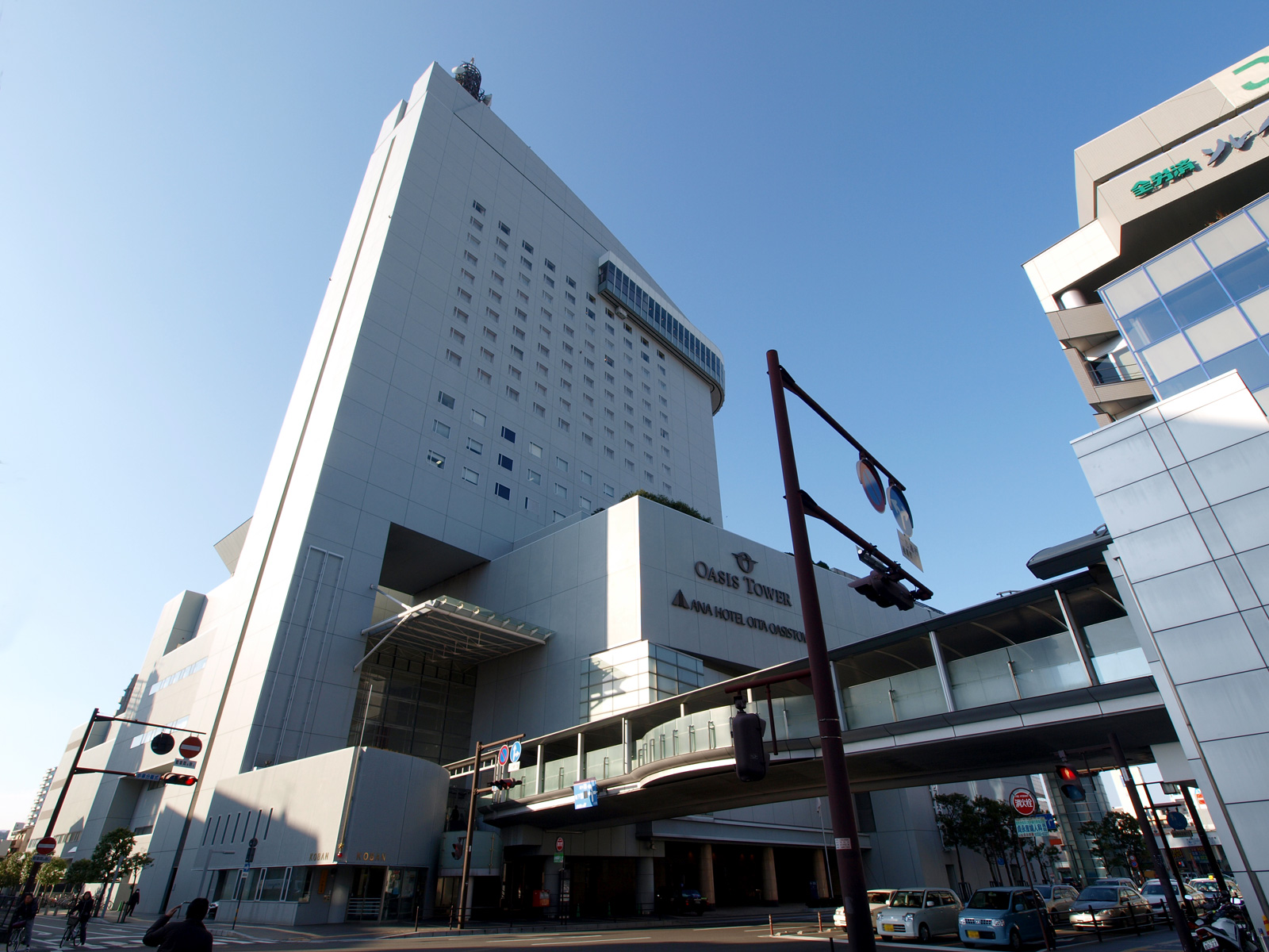 OASIS Hiroba 21, Oita Pref., Japan